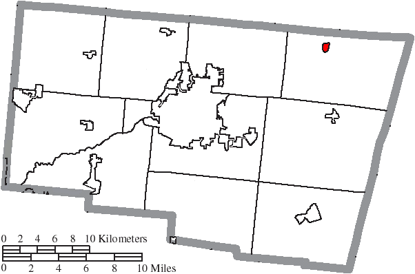 Map of the municipal and township boundaries of Clark County, Ohio, United States, as of the 2000 census, with the location of the village of Catawba highlighted. Township borders are shown only in unincorporated areas in order to differentiate incorporated and unincorporated areas more clearly.